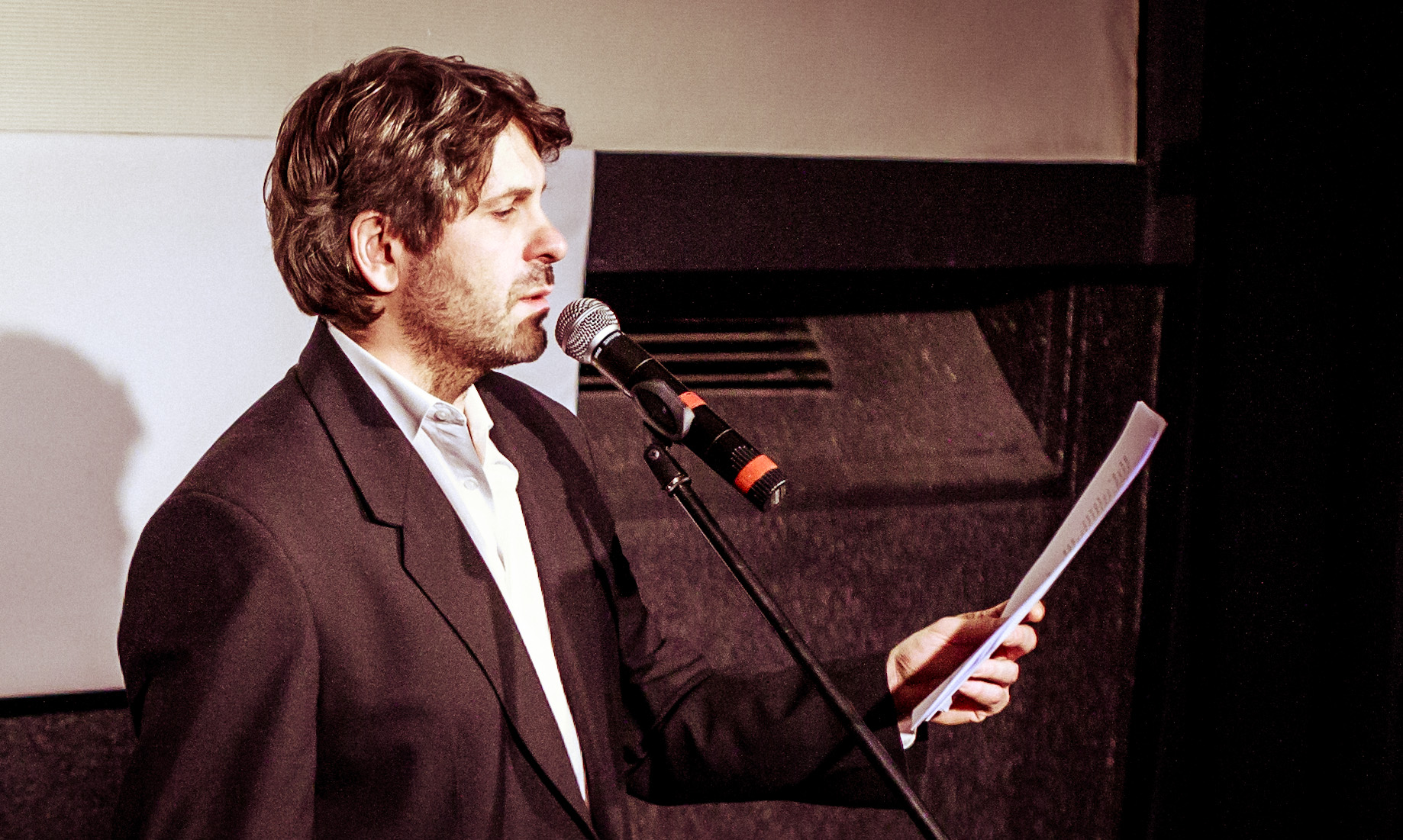 Andrius Bialobžeskis